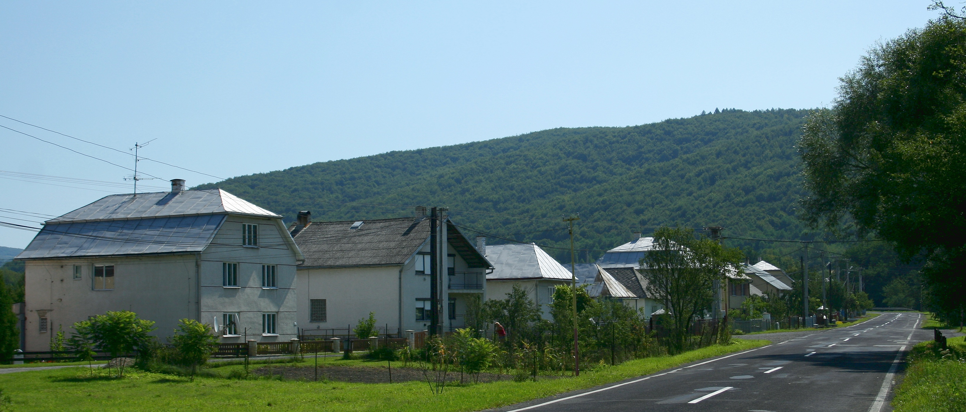 Makovce, village in Slovakia